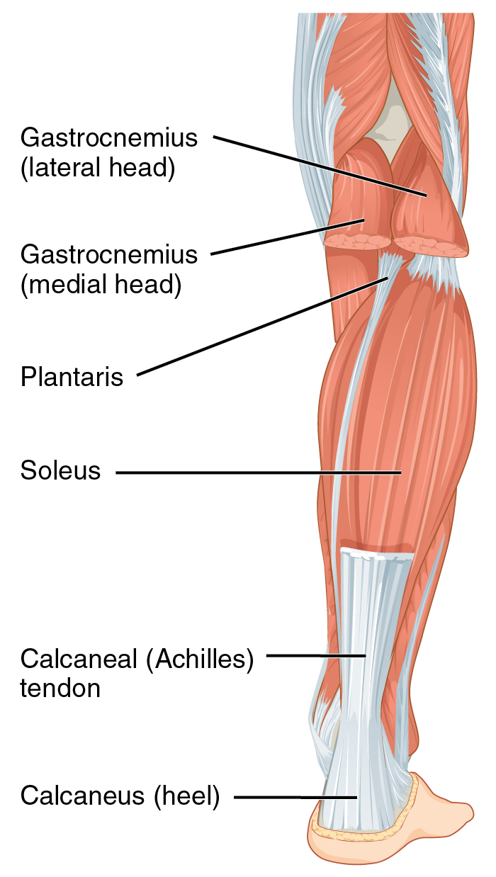 Caption: The muscles of the anterior compartment of the lower leg are generally responsible for dorsiflexion, and the muscles of the posterior compartment of the lower leg are generally responsible for plantar flexion. The lateral and medial muscles in both compartments invert, evert, and rotate the foot. URL: Other versions